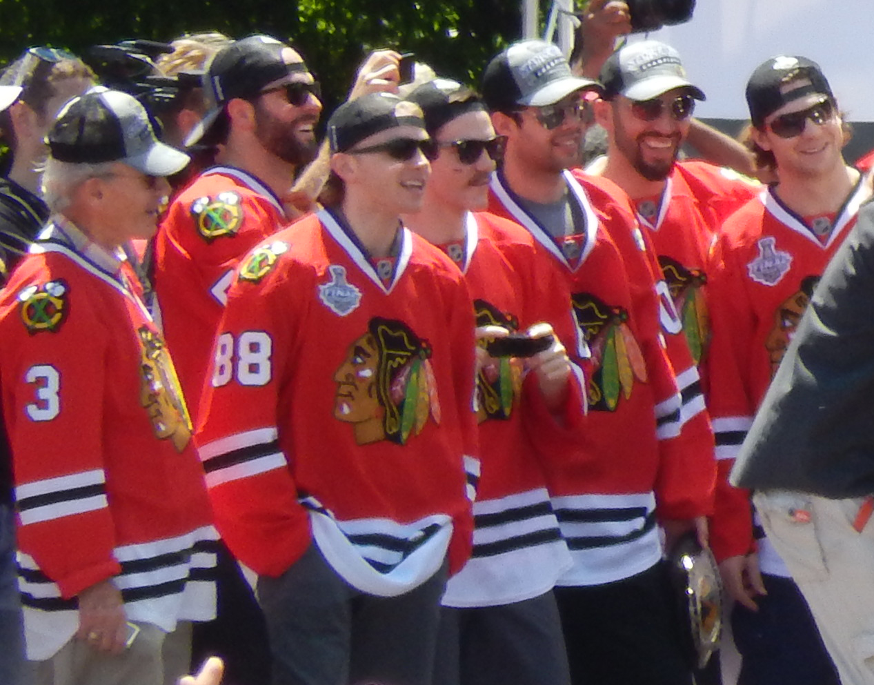 Blackhawks Rally @ Grant Park 6/28/2013